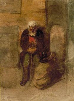 No. 6b Sandomir Jew. The Poor Jew.